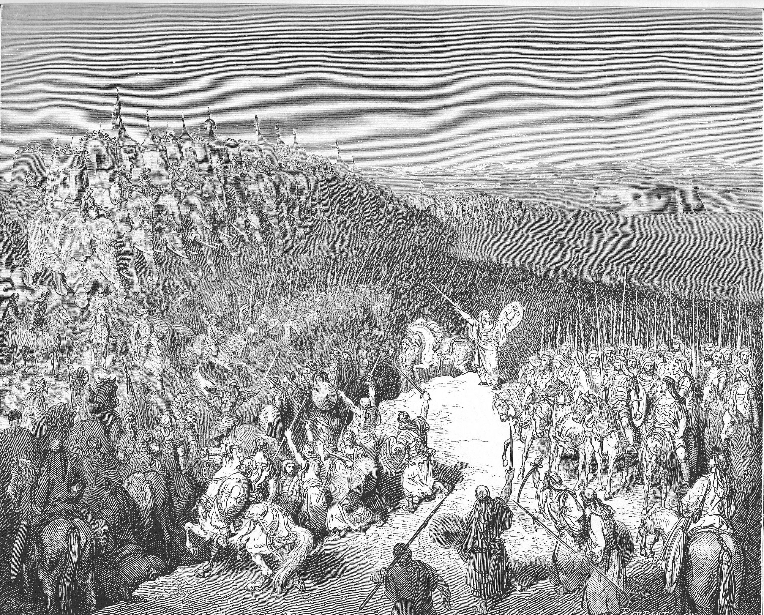 Judas Maccabeus before the Army of Nicanor (1 Macc. 7:26-32)